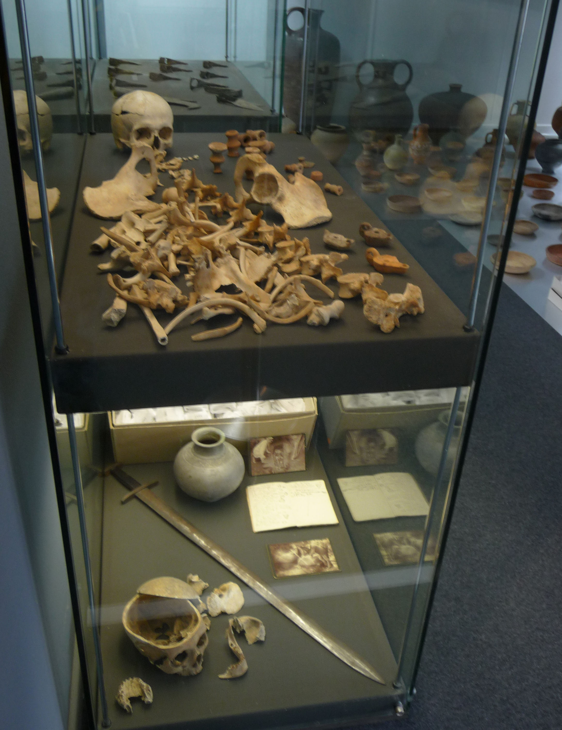 Art in Ludwigshafen, Germany